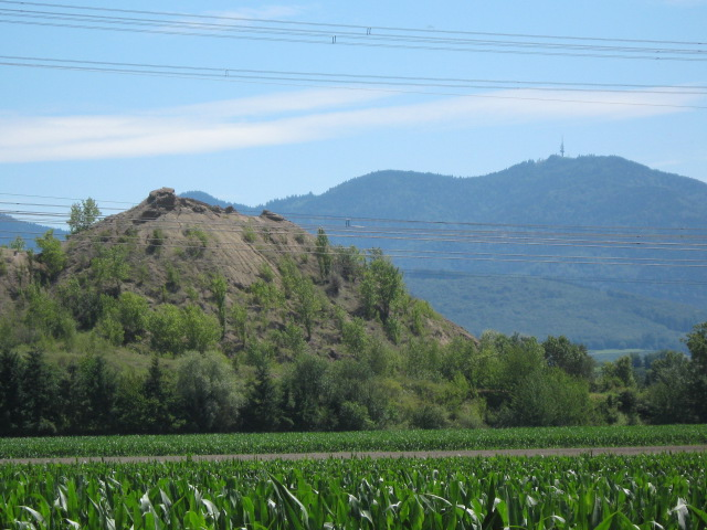 So called "Monte Kalino" nearby the little town called "Buggingen", in Germany, between Freiburg and Lörrach, Baden-Württemberg. Photo taken from West; at the background: "Hochblauen"